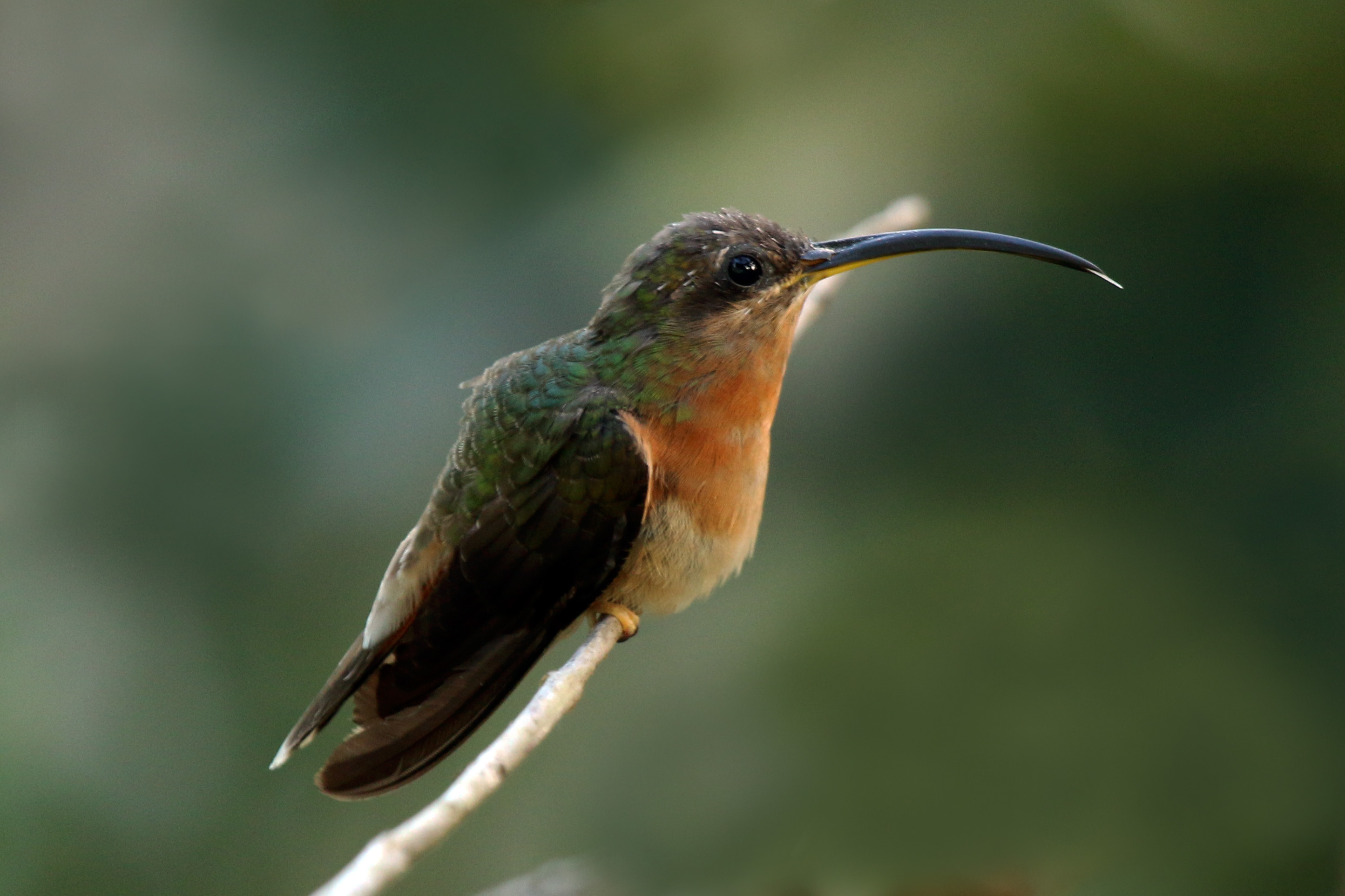 Rufous-breasted hermit (Glaucis hirsutus insularum), Tobago